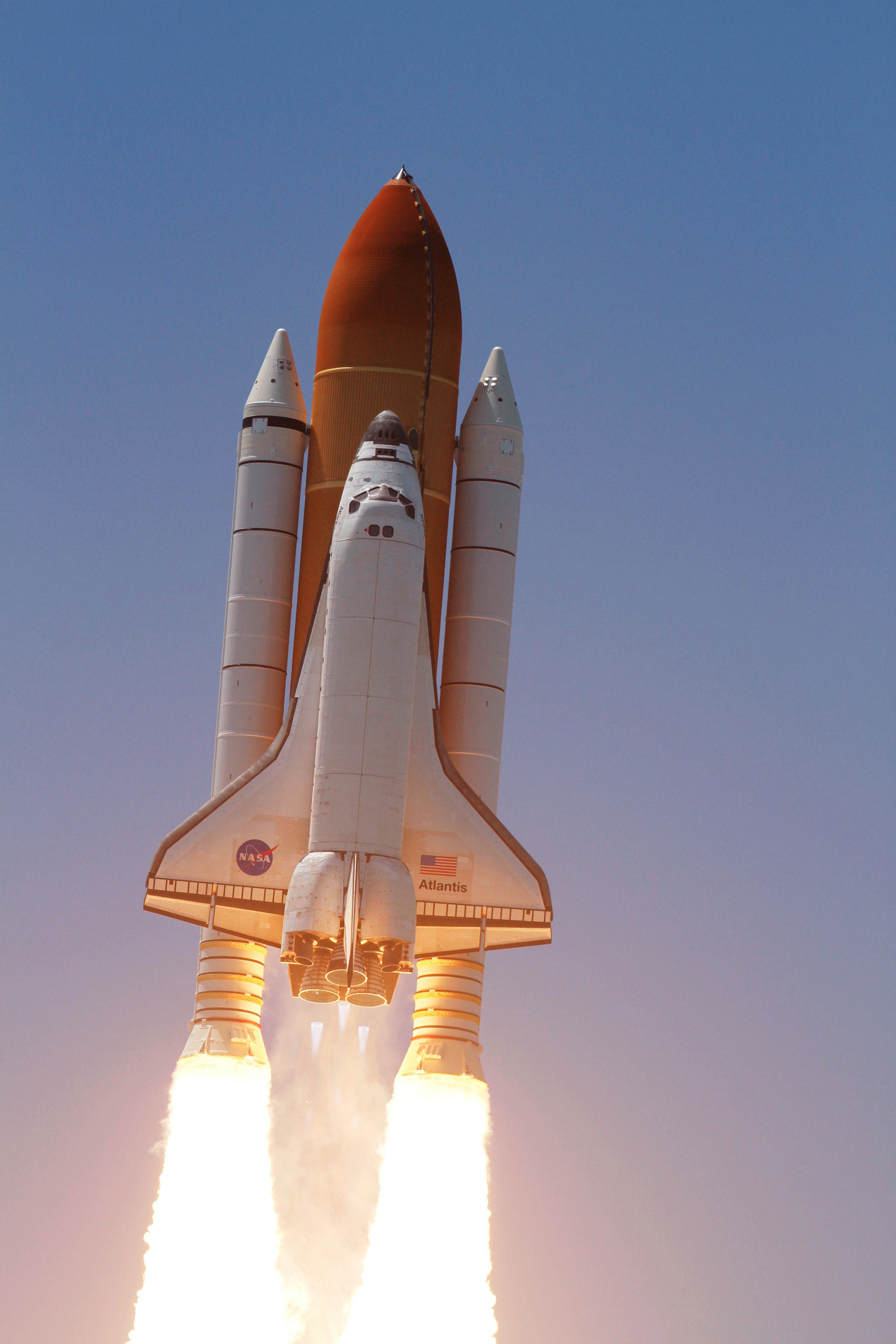 Space shuttle Atlantis soars to orbit from Launch Pad 39A at NASA's Kennedy Space Center in Florida on the STS-132 mission to the International Space Station at 2:20 p.m. EDT on May 14. The third of five shuttle missions planned for 2010, this was the last planned launch for Atlantis. The Russian-built Mini Research Module-1 is inside the shuttle's cargo bay. Also known as Rassvet, or "dawn," it will provide additional storage space and a new docking port for Russian Soyuz and Progress spacecraft. The laboratory will be attached to the bottom port of the station's Zarya module. The mission's three spacewalks will focus on storing spare components outside the station, including six batteries, a communications antenna and parts for the Canadian Dextre robotic arm. STS-132 is the 132nd shuttle flight, the 32nd for Atlantis and the 34th shuttle mission dedicated to station assembly and maintenance.